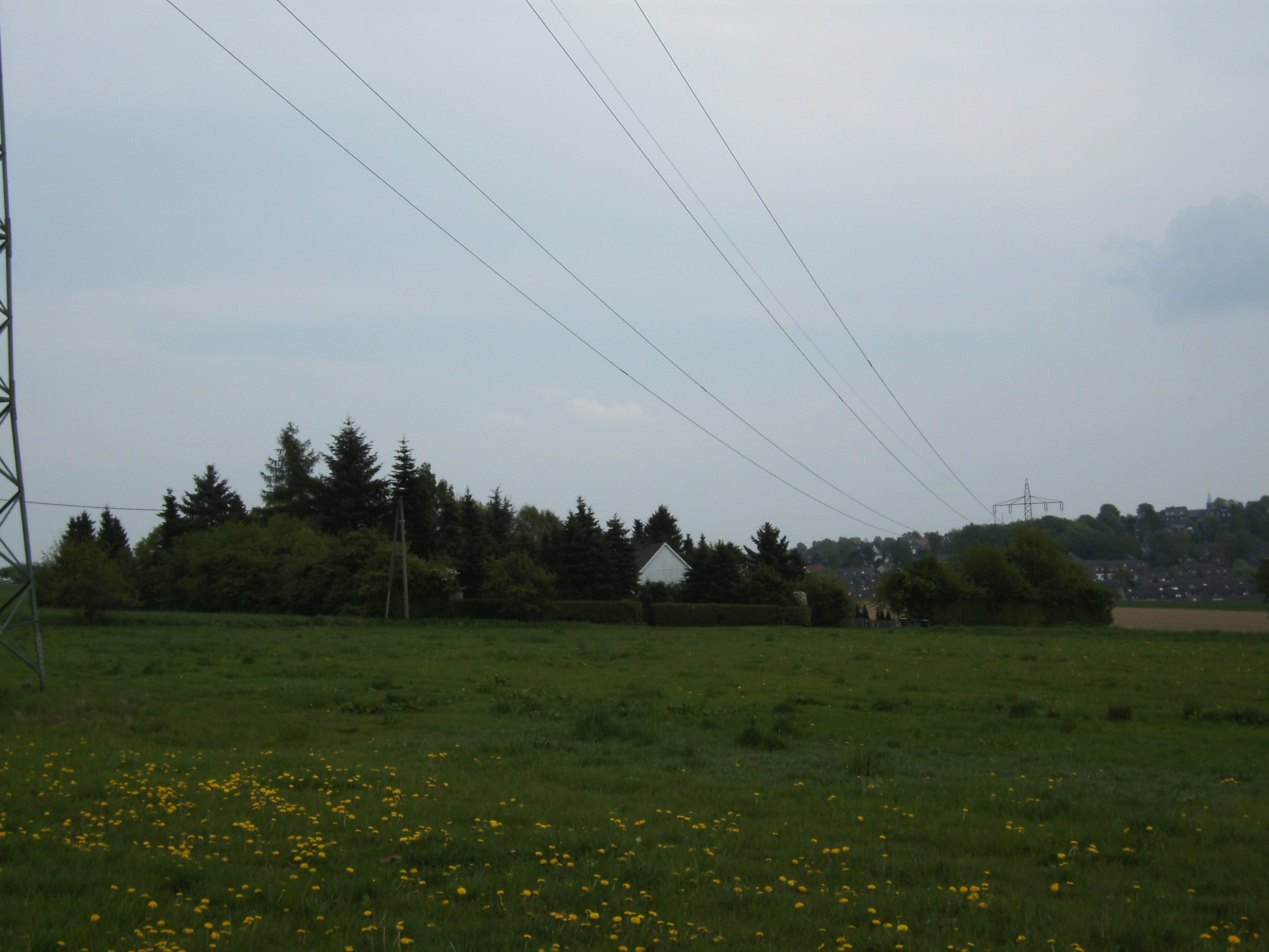 Wuppertal-Dönberg: Jungenholz